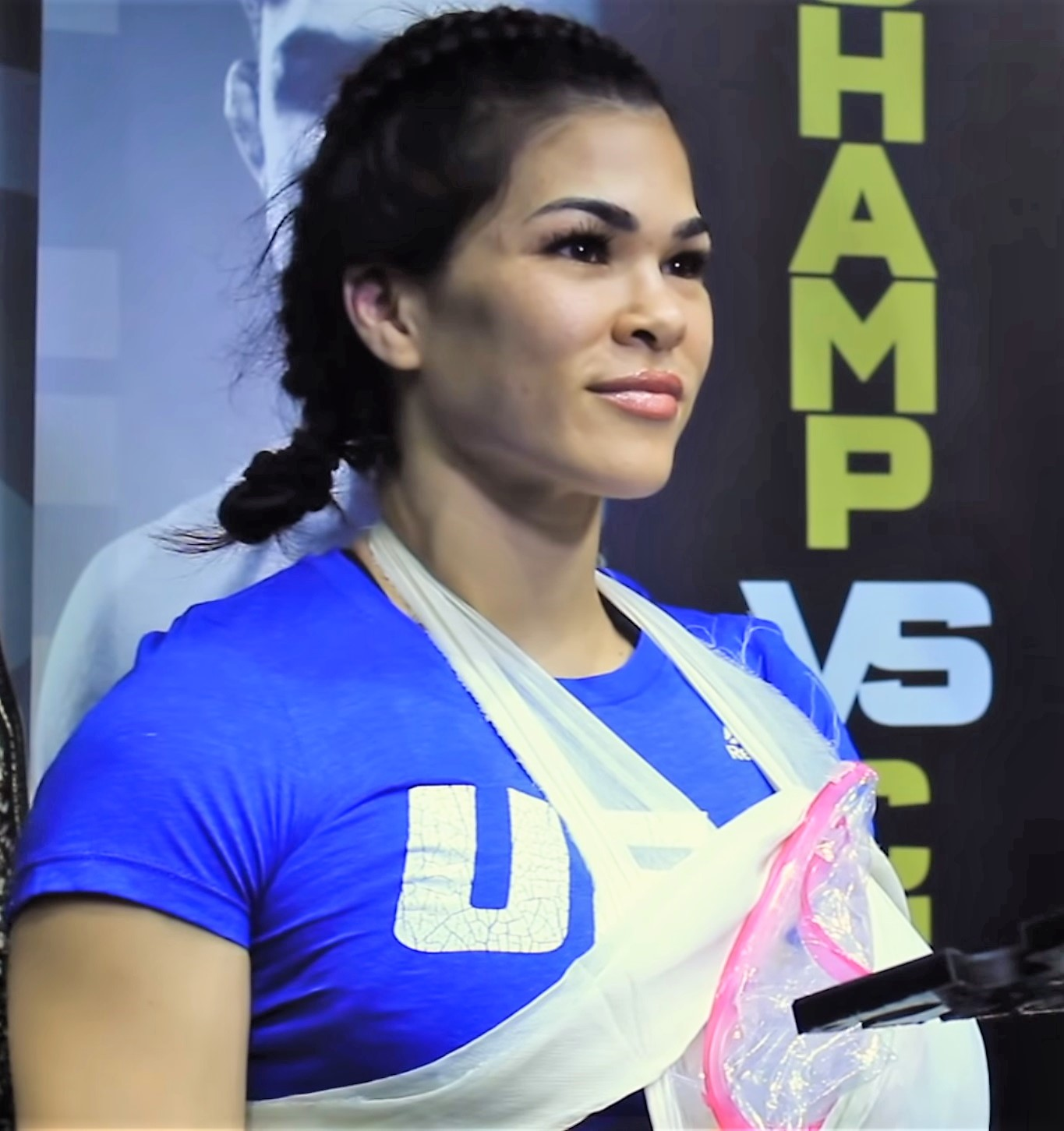 UFC Brooklyn: Heartbroken Rachael Ostovich reflects on her loss to Paige VanZant American mixed martial artist Rachael Ostovich smiles while being interviewed after losing her match, with her left arm in a sling. Visit Europe's biggest MMA website Follow us on our Social Media channels: Facebook: Instagram: Twitter